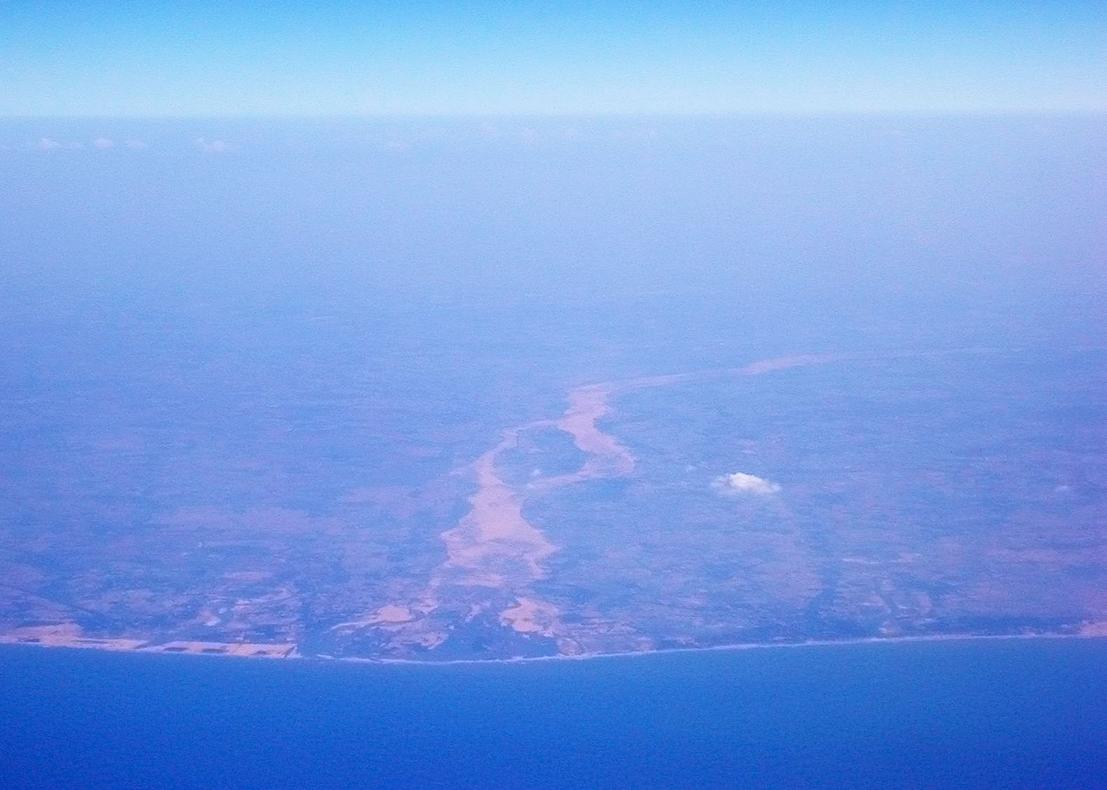 Aerial view of the mouth of the Palar River, looking west.